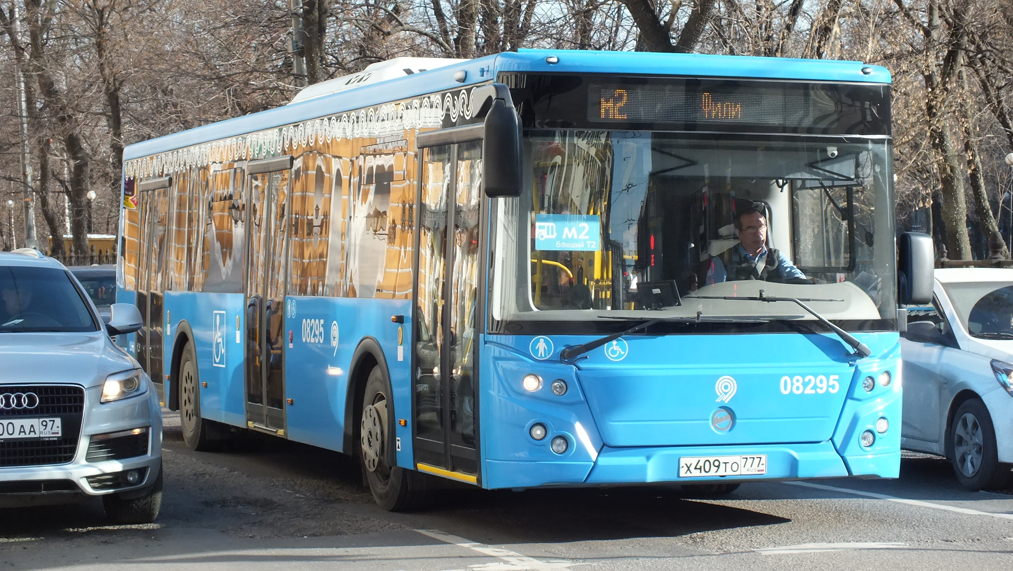 Bus on route "м2" near the Kitay-Gorod metro station.